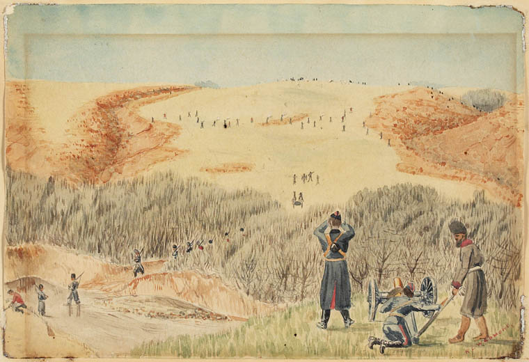 Battle of Cut Knife Creek, 1885.